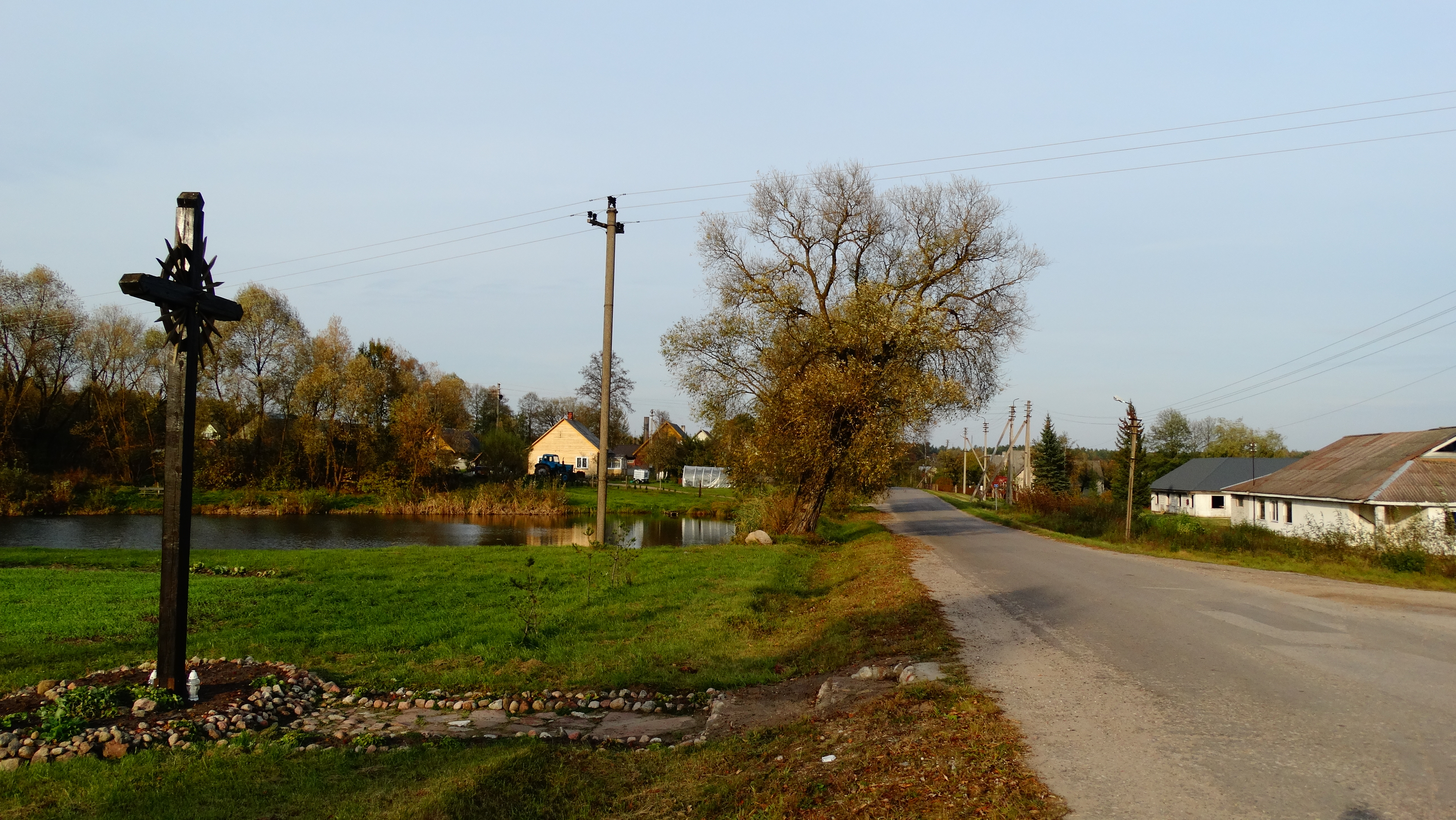 Panara, Varėna district, Lithuania